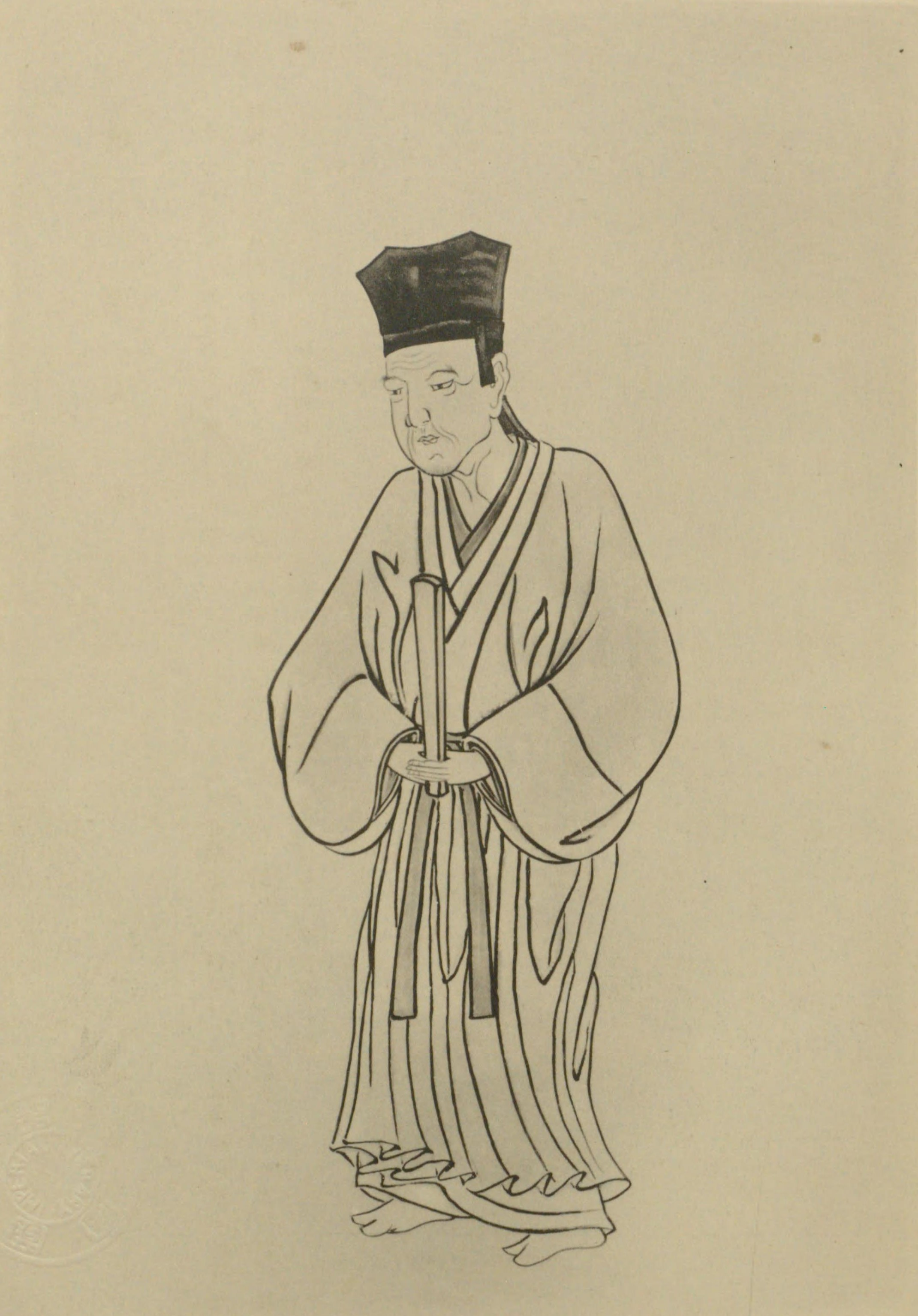 Portrait of Hori Kyoan